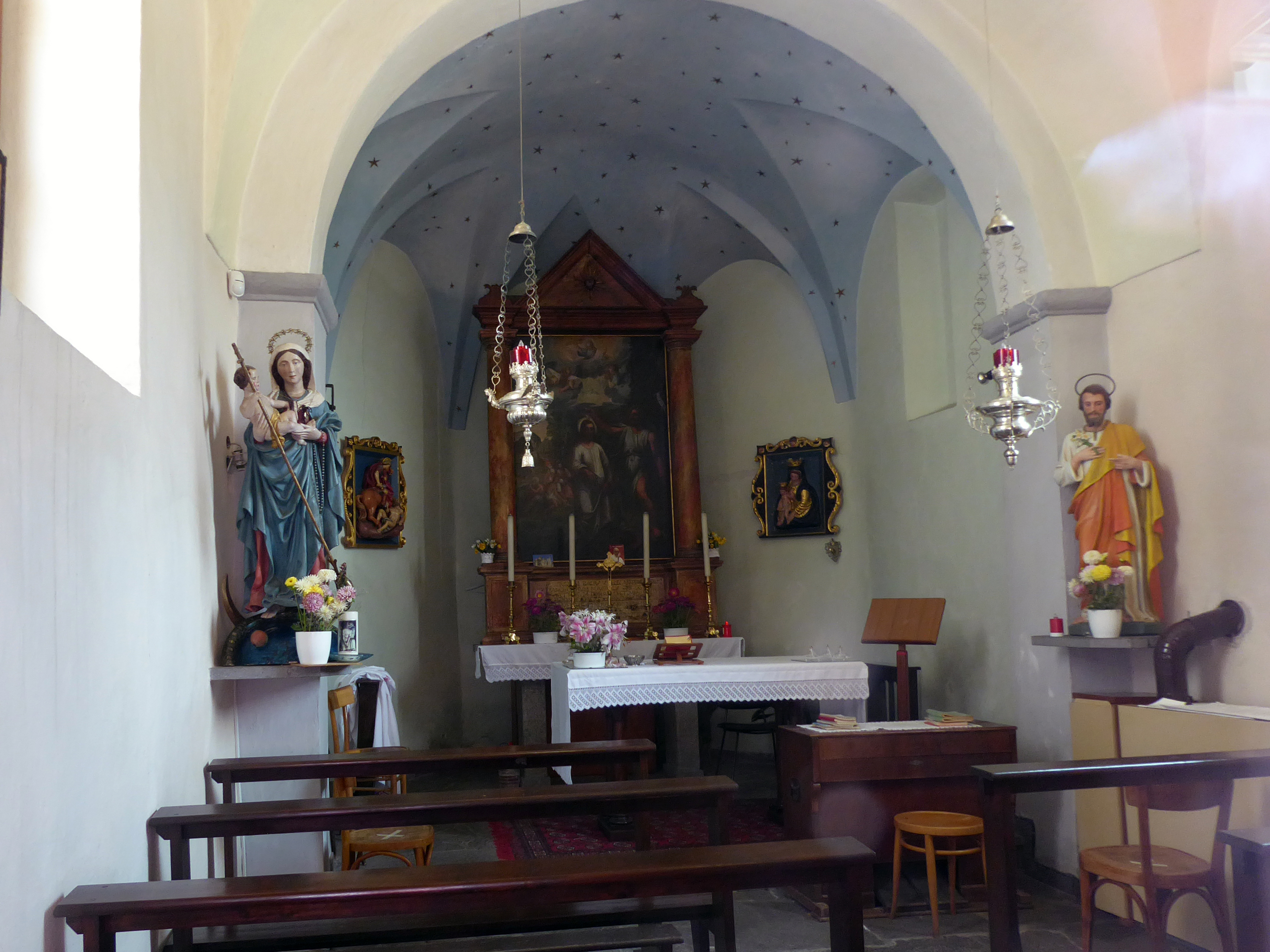 Barbaniga (Civezzano, Trentino, Italy) - Saint John the Baptist church - Interior